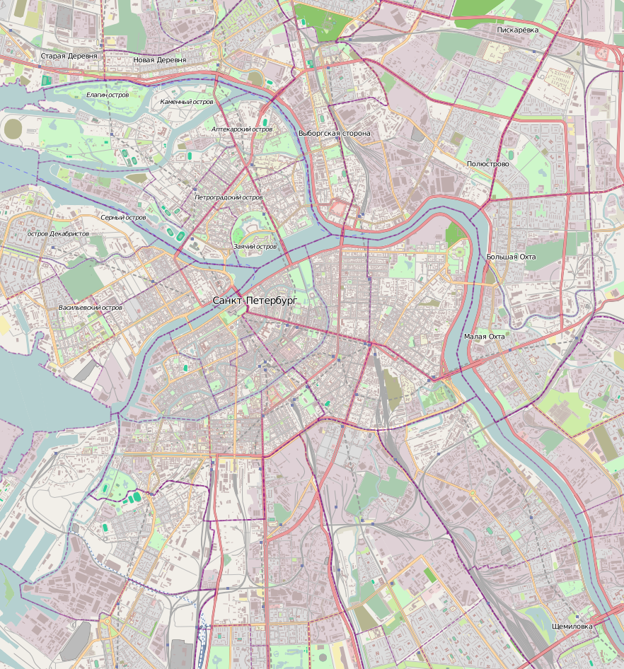 Map of St. Petersburg Geographic limits of the map: N: 59.9982° S: 59.867° W: 30.2156° E: 30.4597°